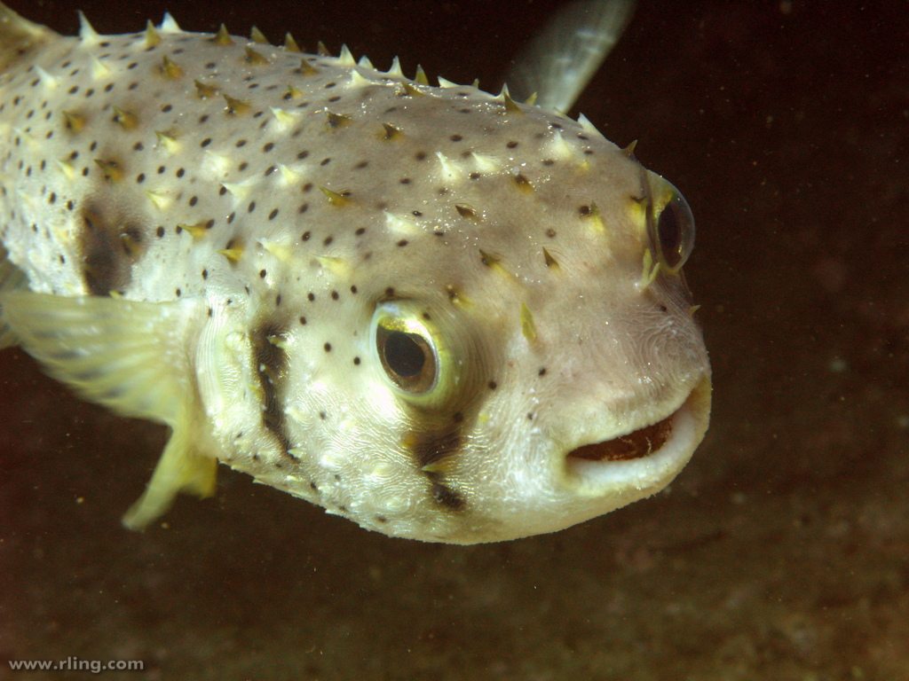 Portrait of a Three-bar Porcupinefish (Dicotylichthys punctulatus). Fairy Bower, Manly, NSW